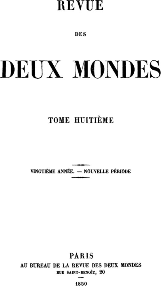 First page of 19th-Century version of original Revue des deux mondes a French language monthly literary and cultural affairs magazine founded in 1829 by François Buloz.